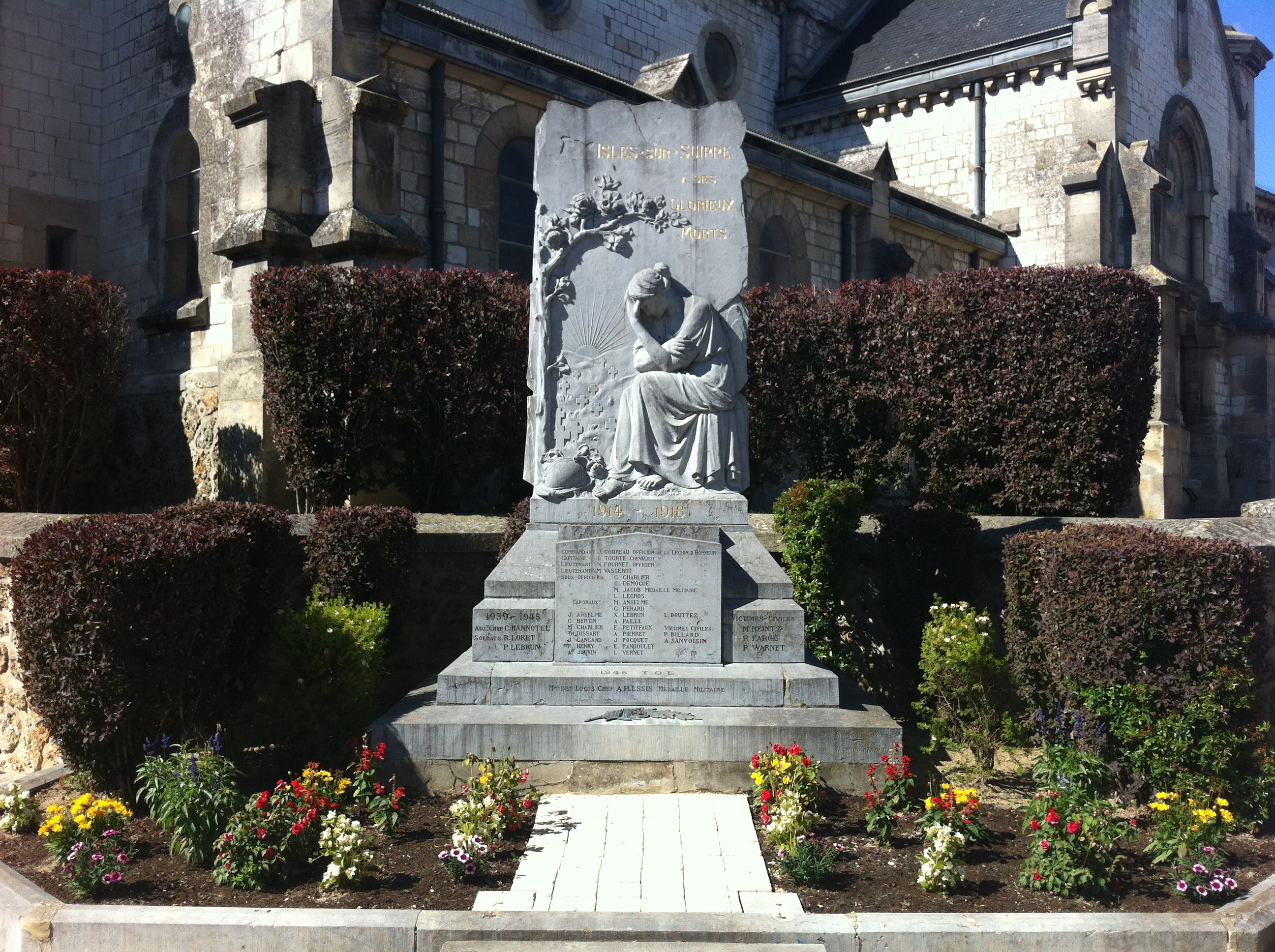 Isles sur Suippe War Memorial